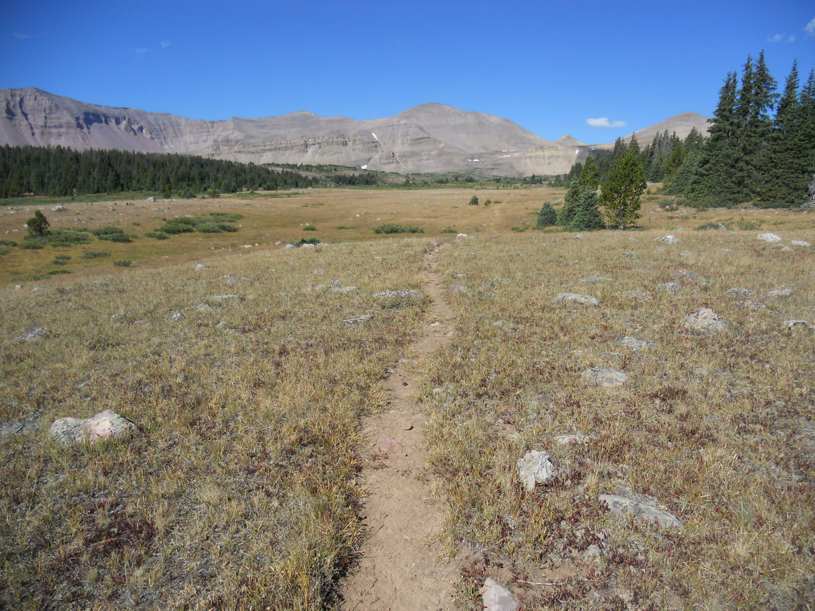 The Uinta Highline Trail in Painter Basin. The view is to the west and ahead is Kings Peak, elevation 13,528 ft (4,123 m), the highest summit in Utah. Anderson Pass (elevation 11,700 ft (3,566 m)), is to the right of the peak.